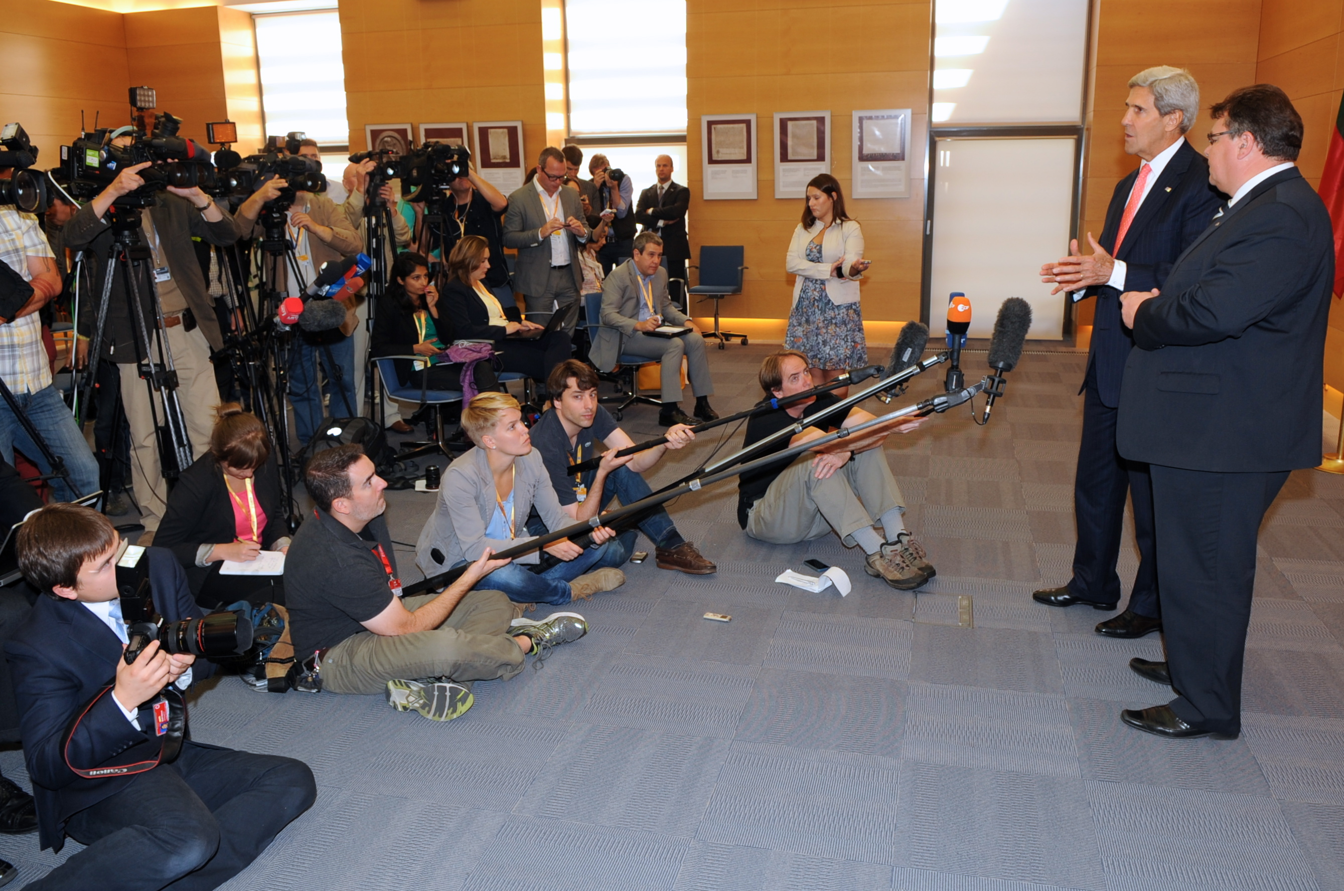 U.S. Secretary of State John Kerry and Lithuanian Foreign Minister Linas Linkevičius speak to the press after a meeting at the Ministry of Foreign Affairs in Vilnius, Lithuania on September 7, 2013. [State Department photo/ Public Domain]